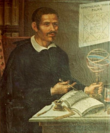 Giovan Battista Odierna (or Hodierna), italian scientist.